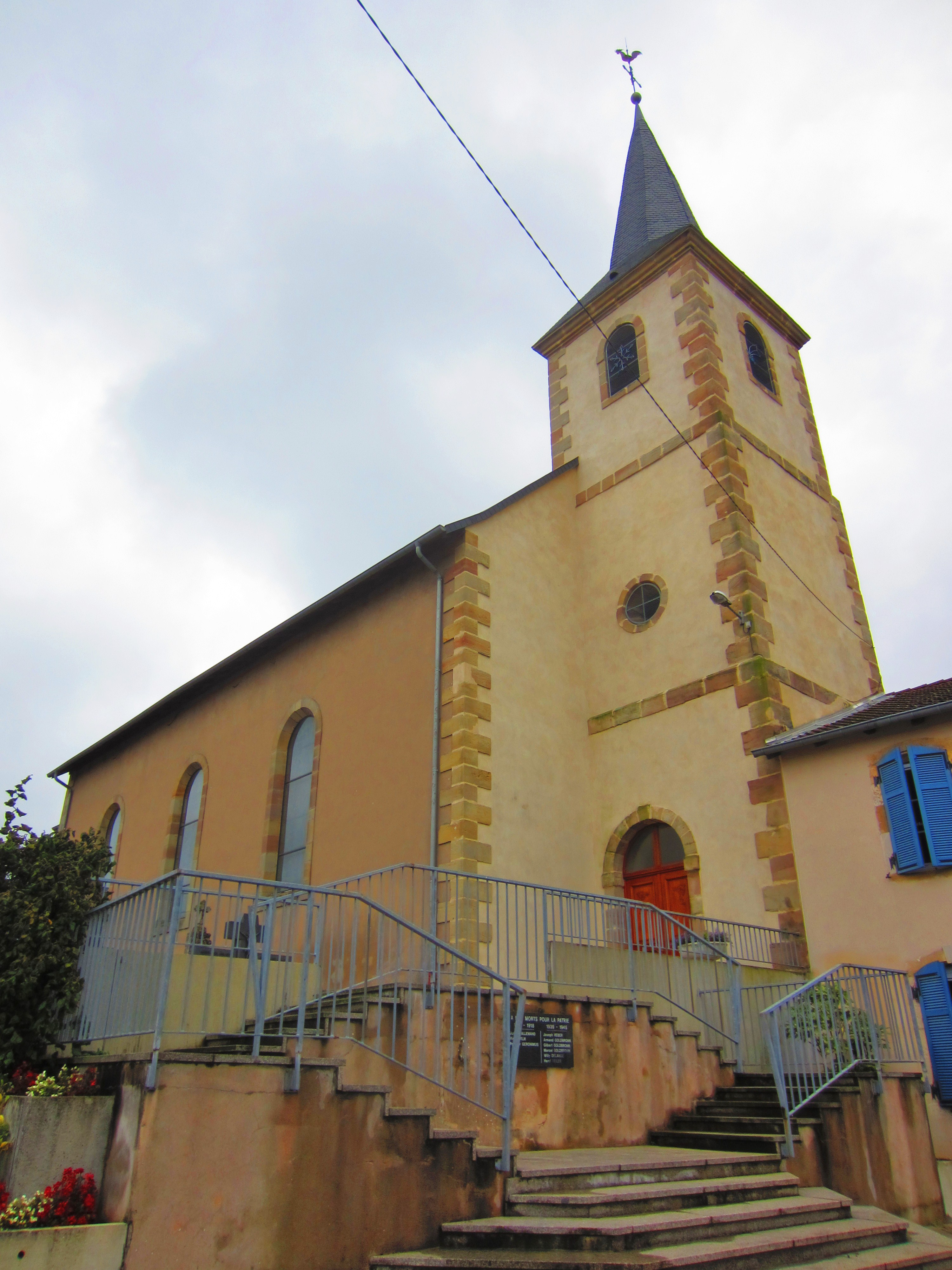 Fletrange church